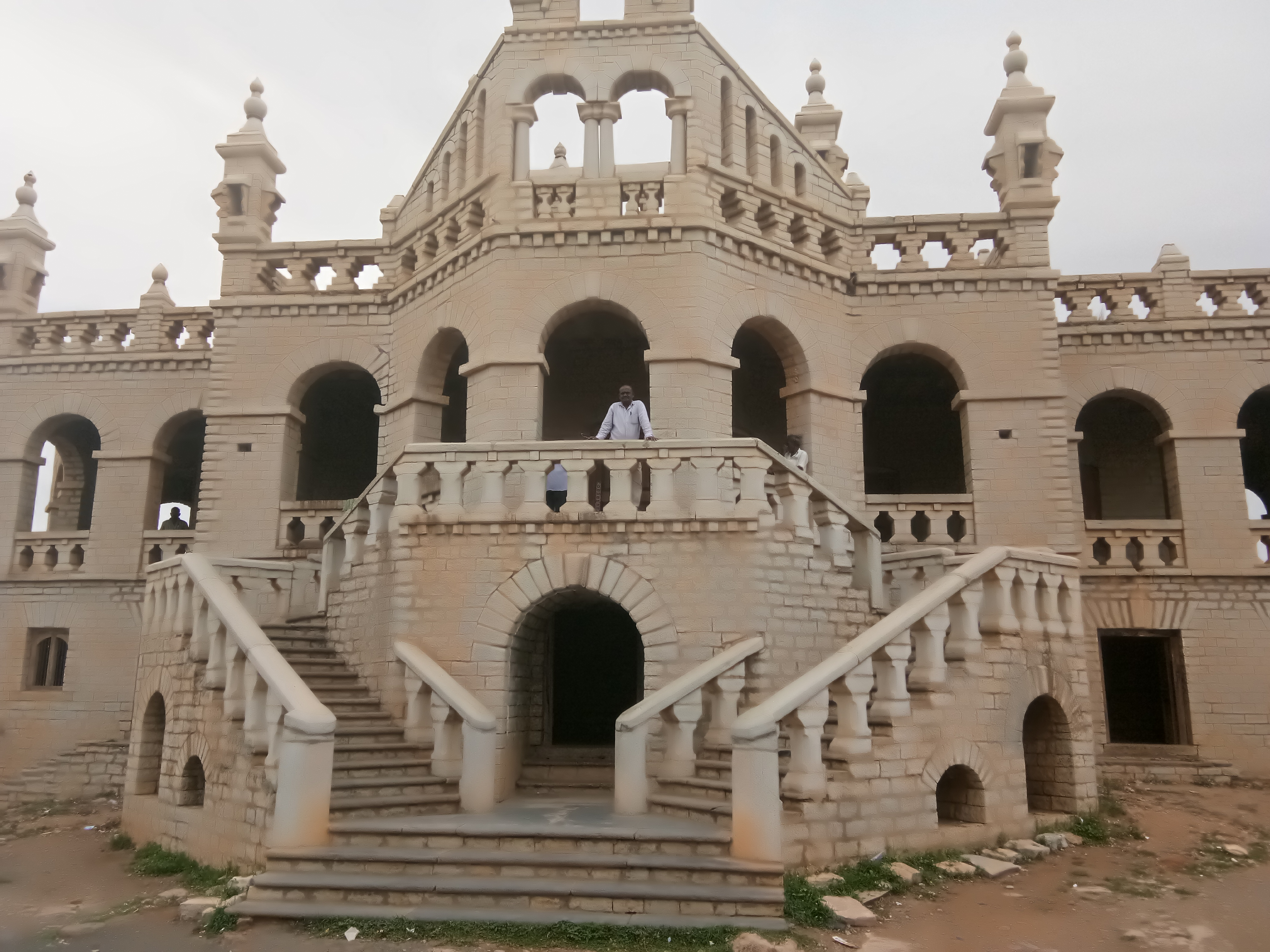 Banaganapalli Fort in Kurnool India.